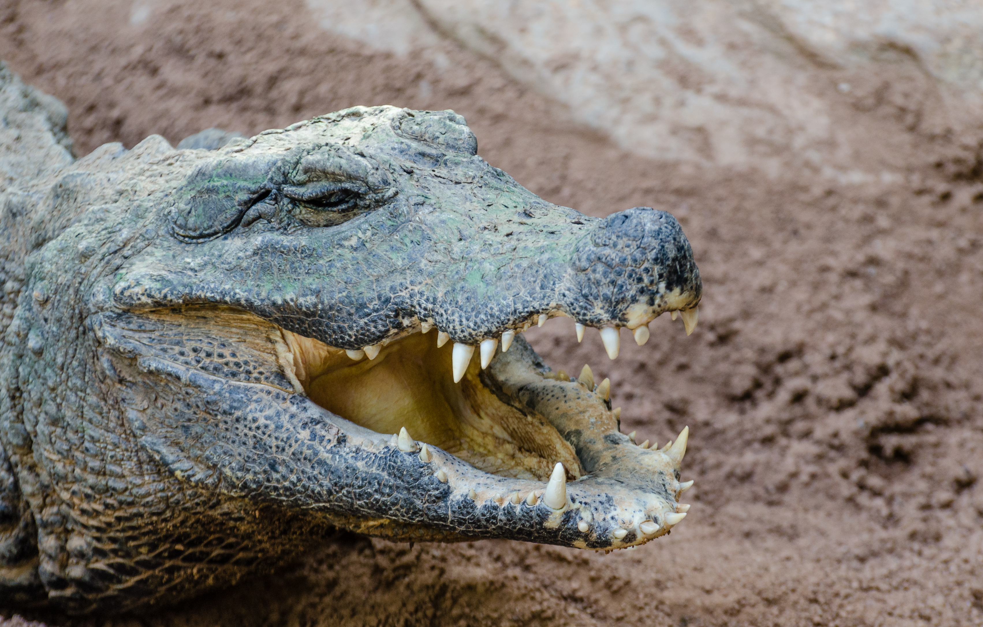 Dwarf crocodile (Osteolaemus tetraspis) photographed at Bioparc in Fuengirola, Andalusia